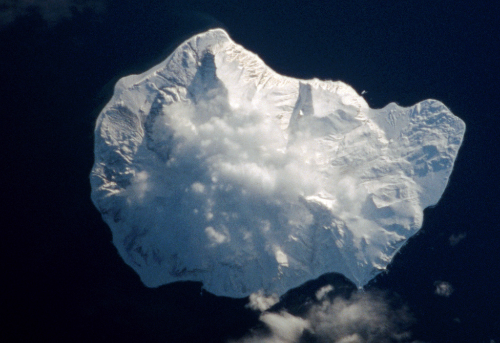 NASA astronaut image of Makanrushi, Kuril Islands, Russia